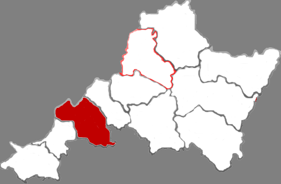 Location of Pingyao county in JinzhongCity, China